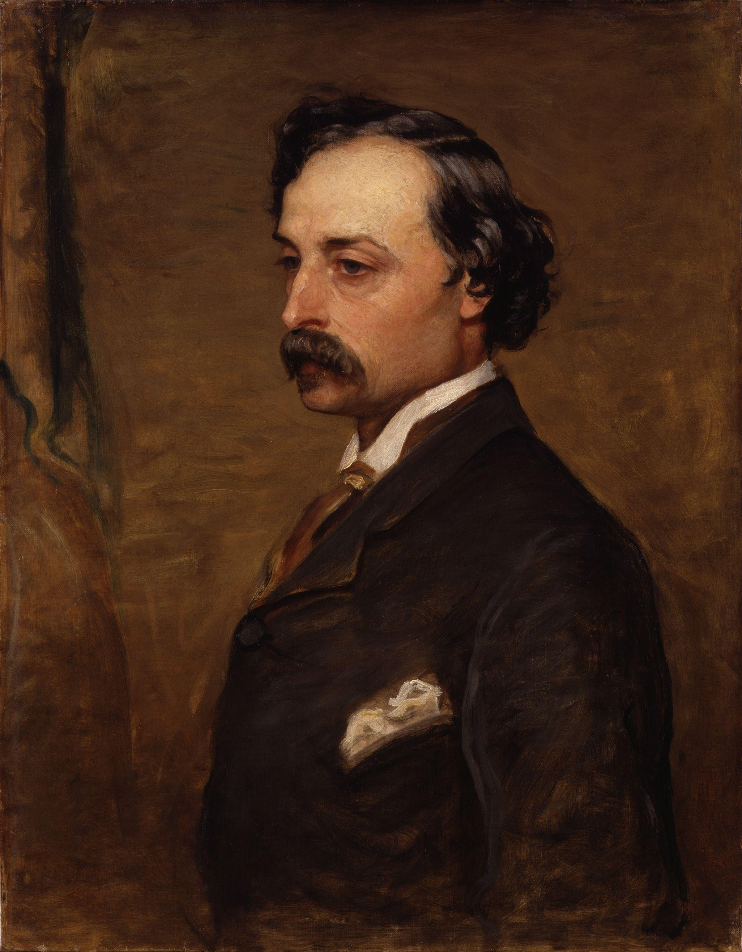 All images in this batch have been confirmed as author died before 1939 according to the official death date listed by the NPG.